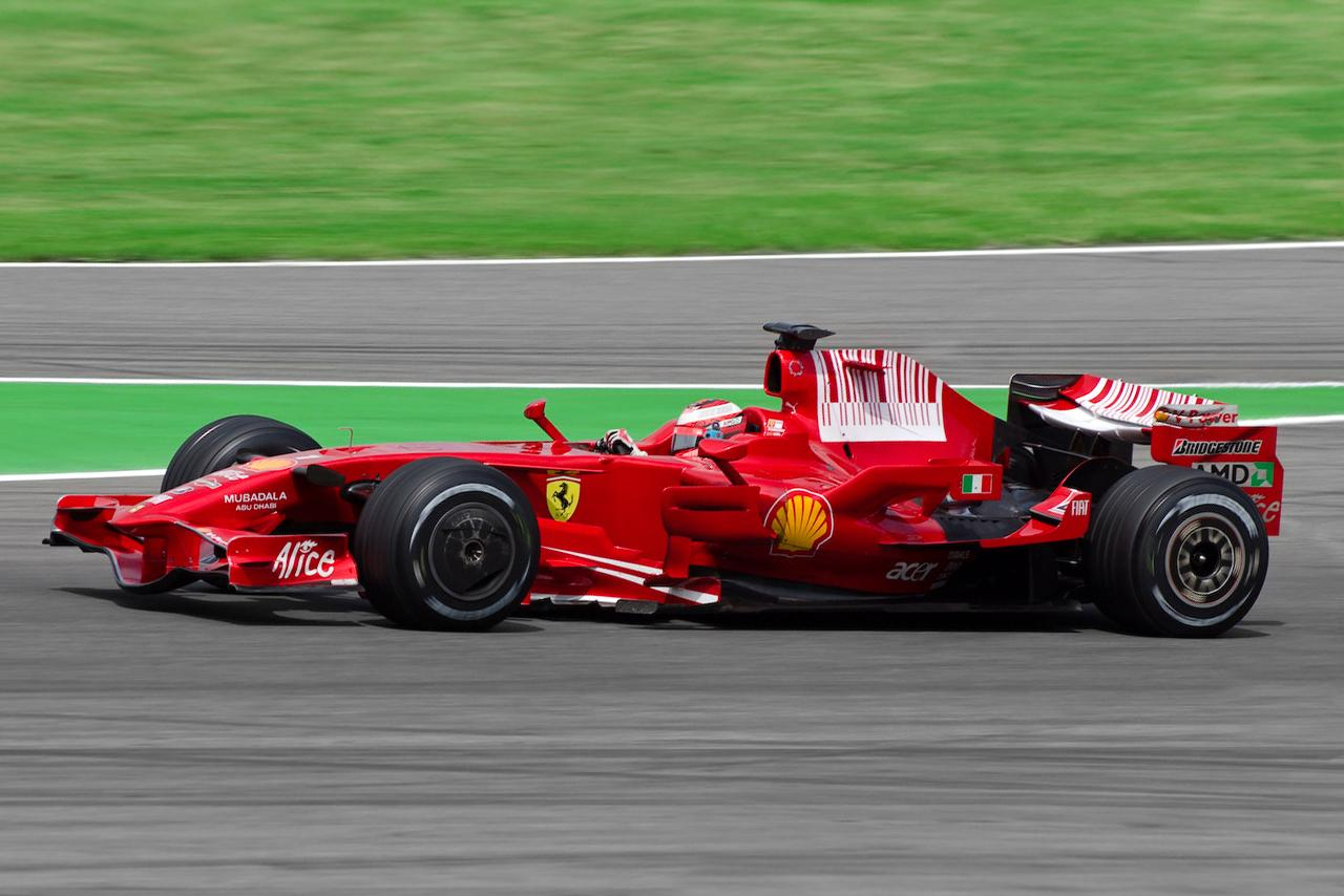 Kimi Räikkönen driving for Scuderia Ferrari at the 2008 German Grand Prix.